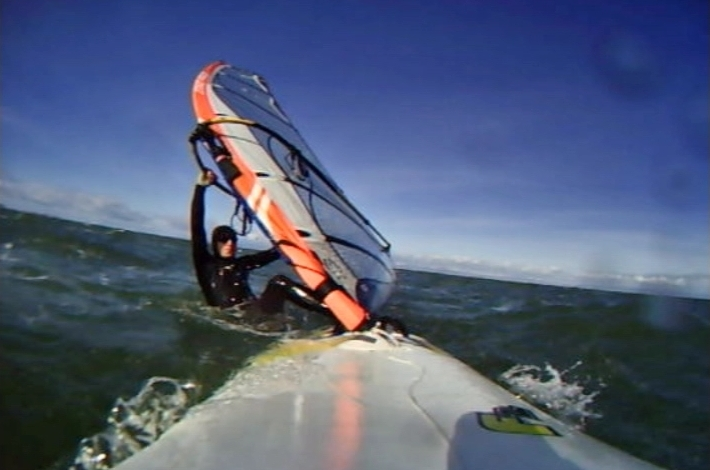 Waterstarting sailor in process of rising up - note straight front arm, tucked-in head and sheeing in back hand